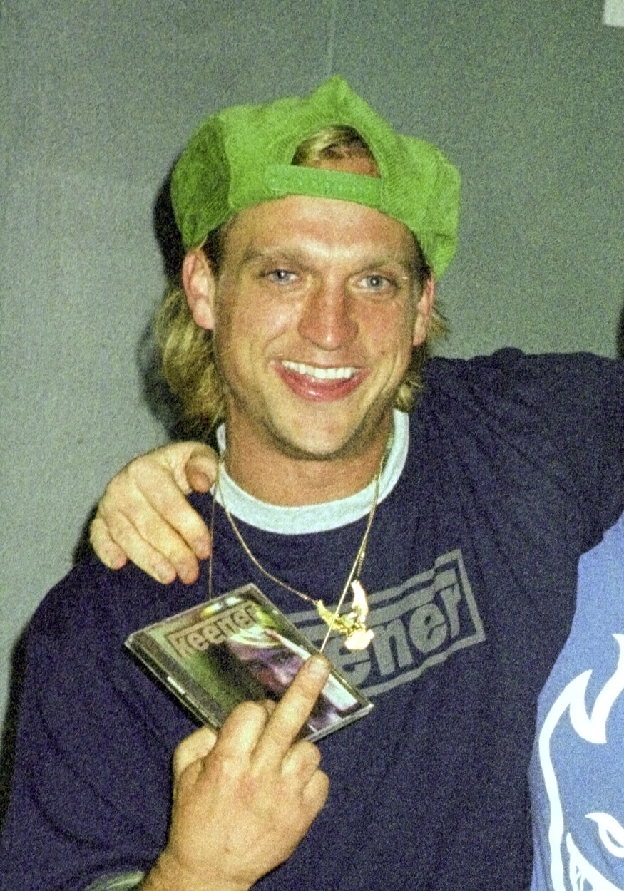 Bernie Coulson at a punk rock show in Vancouver, 1998